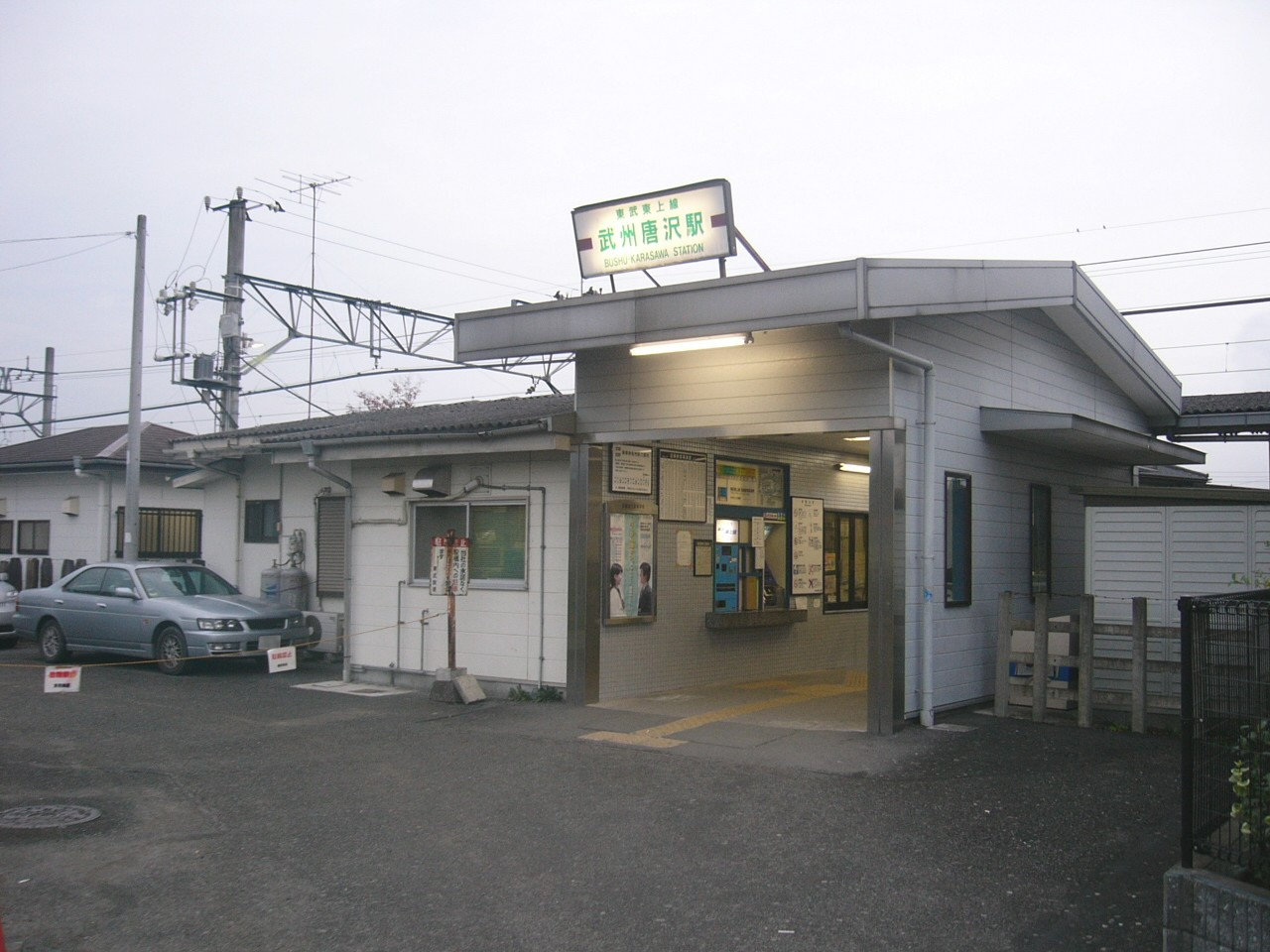 Bushu-Karasawa Station on the Tobu Ogose Line in Ogose, Saitama, Japan